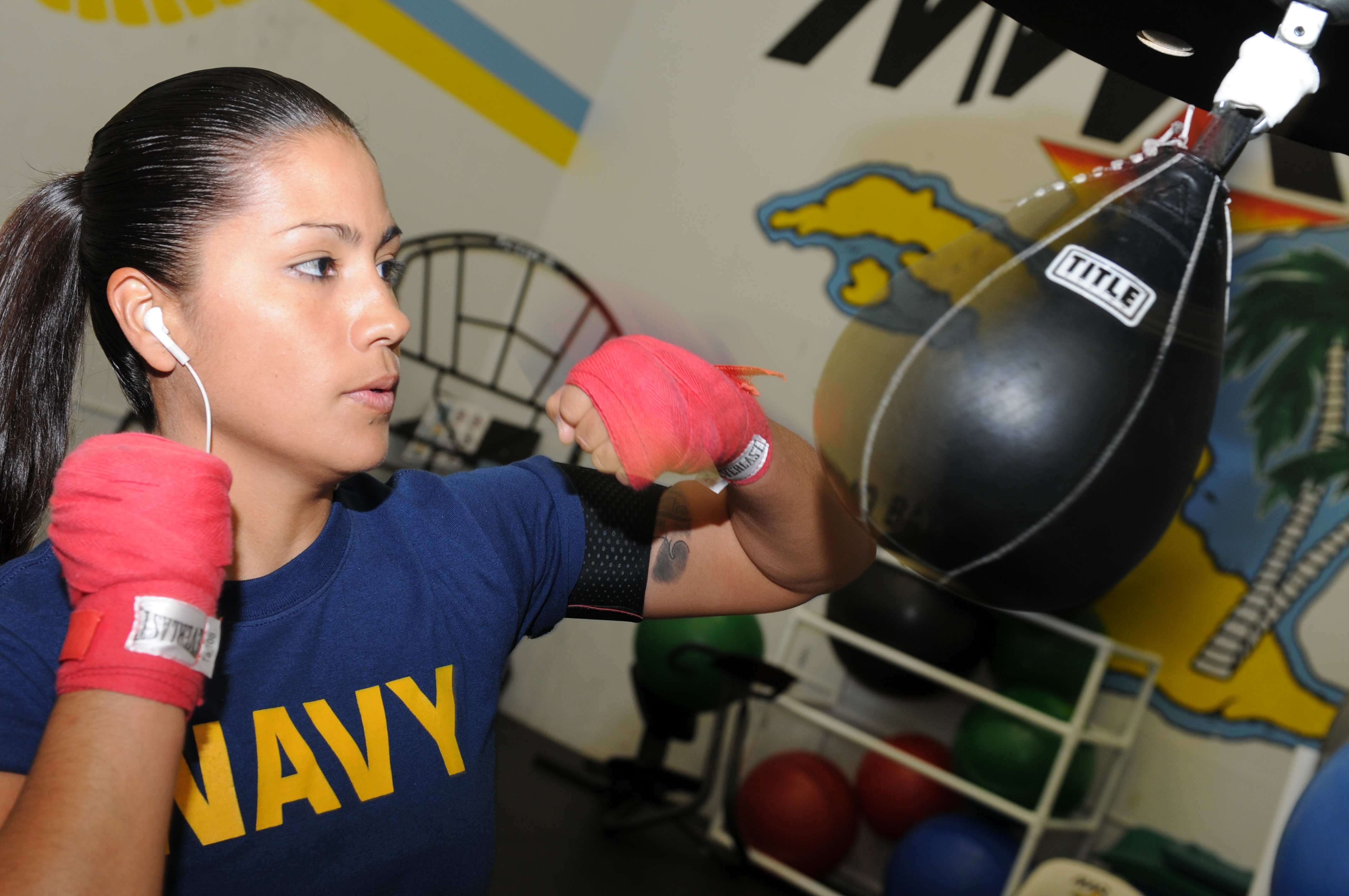 GUANTANAMO BAY, Cuba (March 25, 2011) Master-at-Arms 2nd Class Nancy Mora, assigned to Navy Expeditionary Guard Battalion, Joint Task Force Guantanamo Bay, works out on a speed bag in the Denich Fitness Center at Naval Station Guantanamo Bay. (U.S. Navy photo by Mass Communication Specialist 2nd Class Maddelin Angebrand/Released)